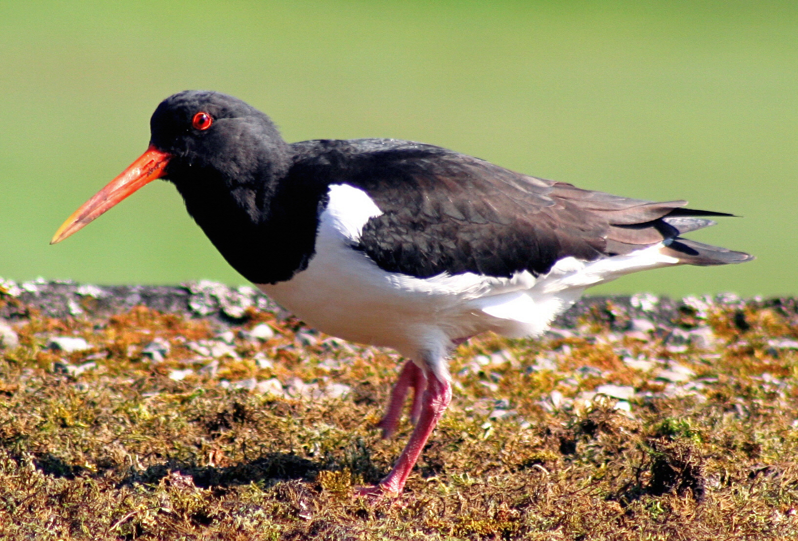 A Eurasian Oystercatcher (also known as the Common Pied Oystercatcher) on the roof of Royal Golf Hotel, Dornoch, Scotland.